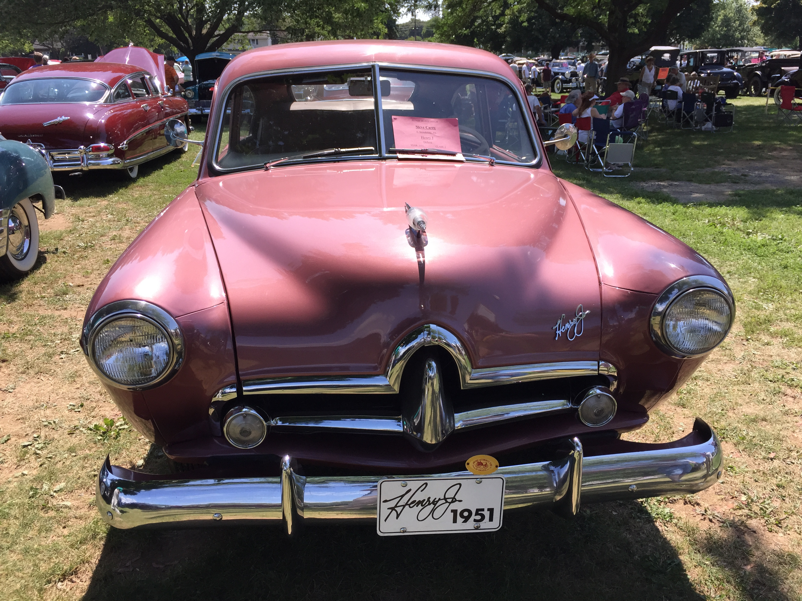 1951 Henry J automobile built by the Kaiser-Frazer Corporation. An economical four-cylinder, compact-sized two-door sedan. Picture taken at the 52nd Annual "Das Awkscht Fescht" antique car show in Macungie, Pennsylvania.